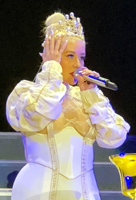 American recording artist Christina Aguilera performing "Deserve". The performance took place at the Pepsi Center in Denver, Colorado, on October 19, 2018.